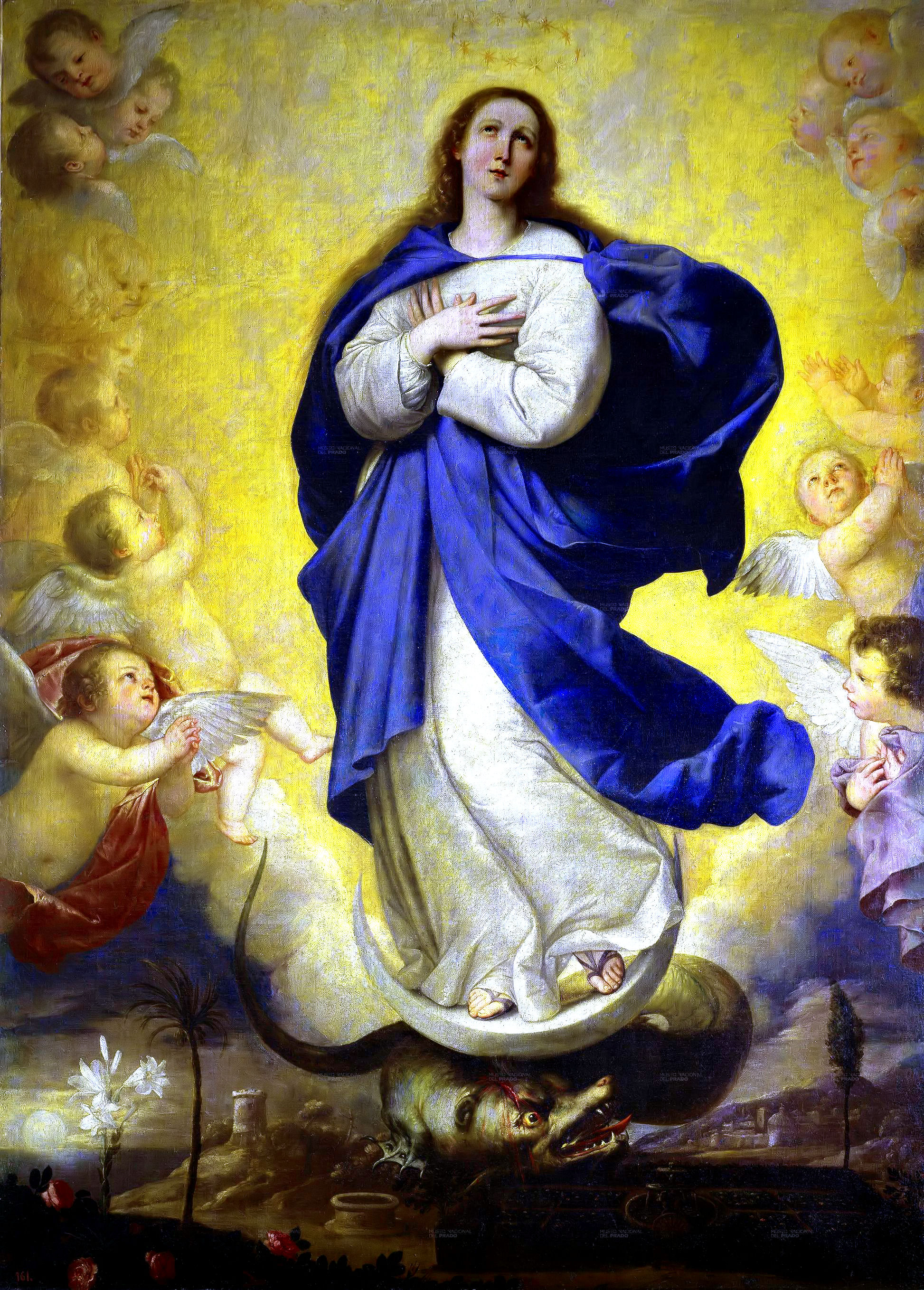 La Purisima Inmaculada Concepcion de Maria con Artista Ribera. Por la gloria de la Iglesia Santa Romana Catolica.